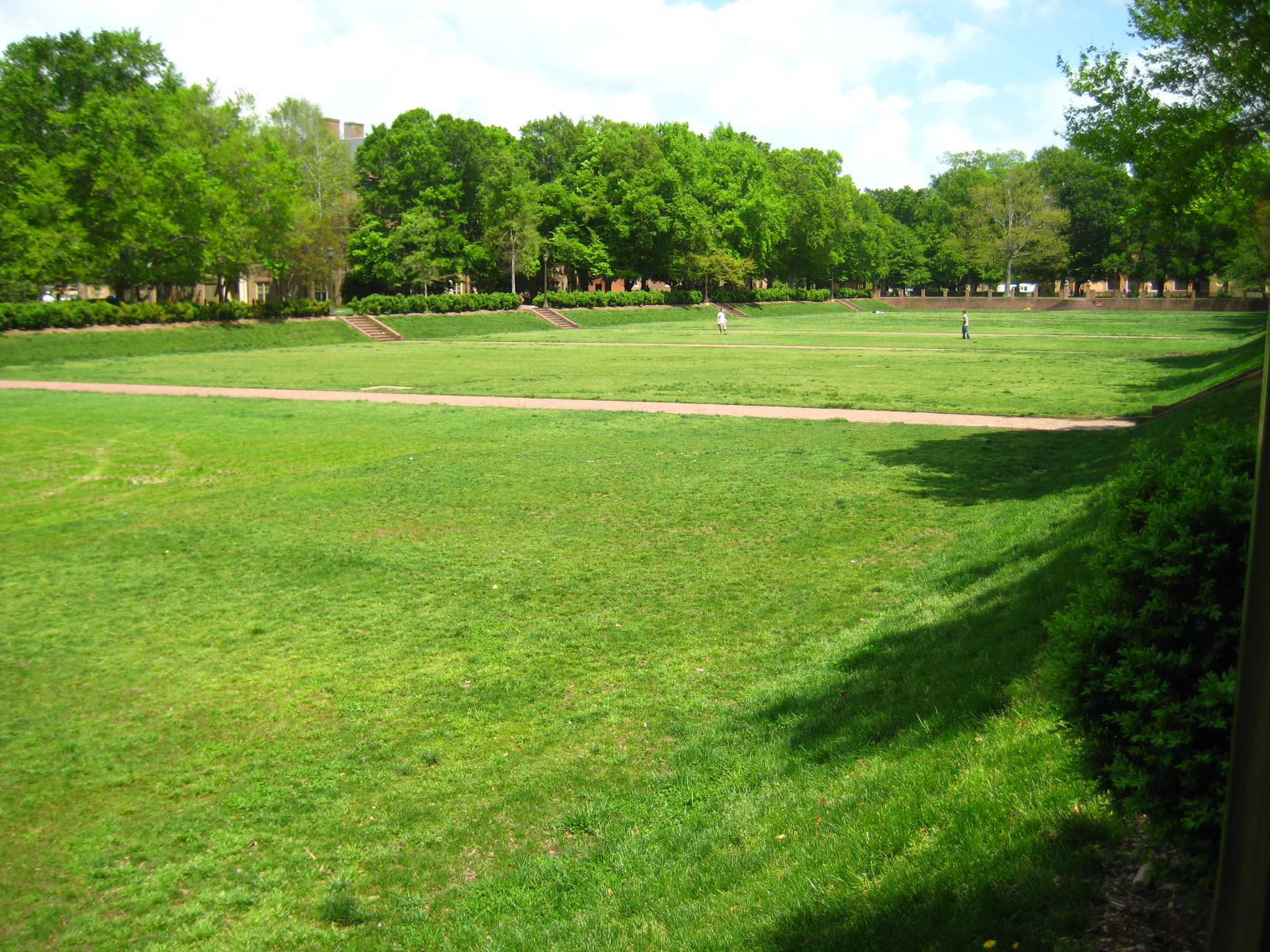 The Sunken Garden at the College of William & Mary in Williamsburg, Virginia, USA.